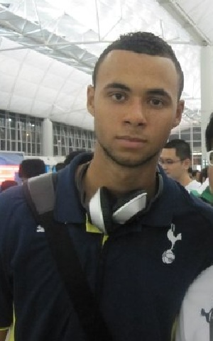 John Bostock